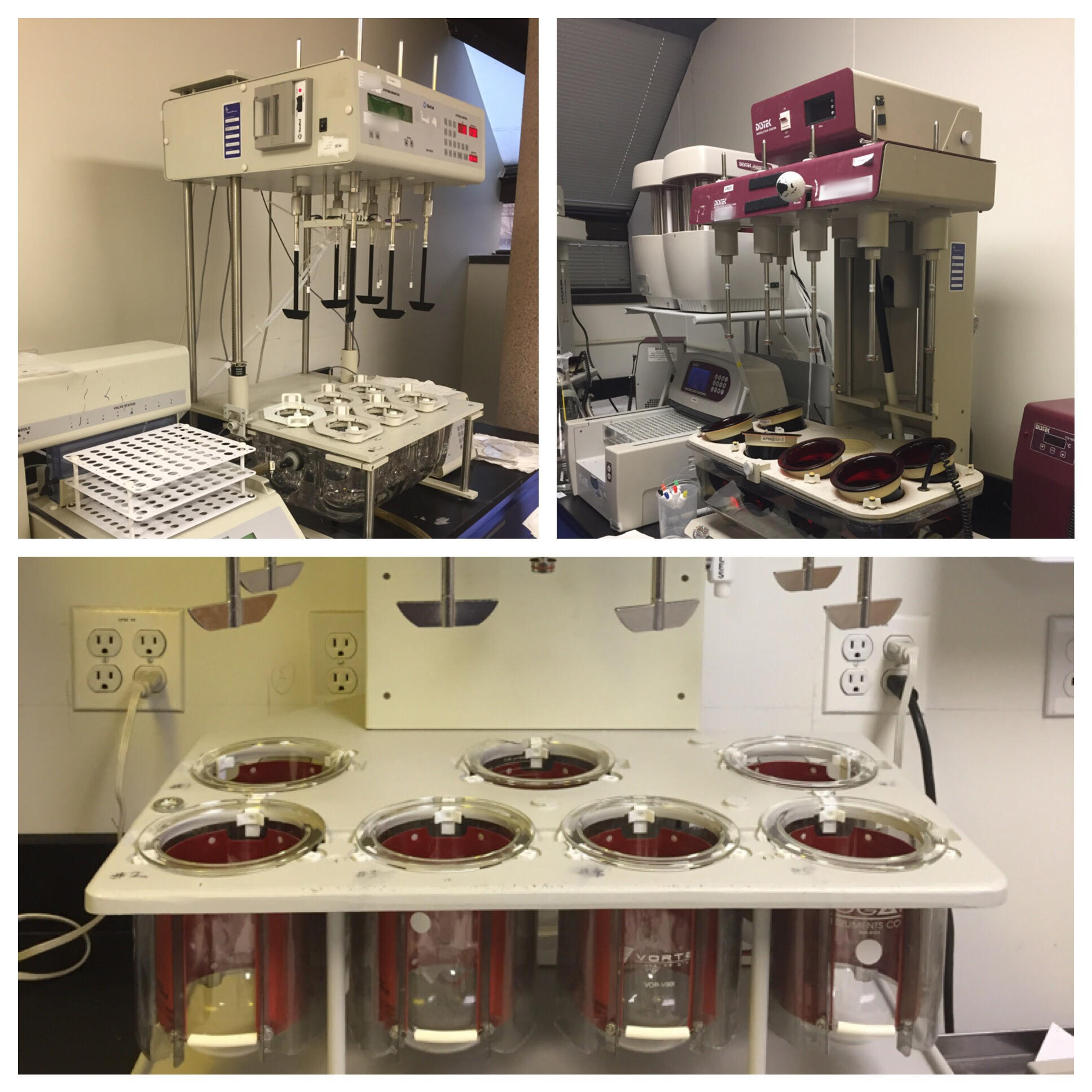 Image of various Dissolution unit with different apparatuses (USP Paddle and Basket)